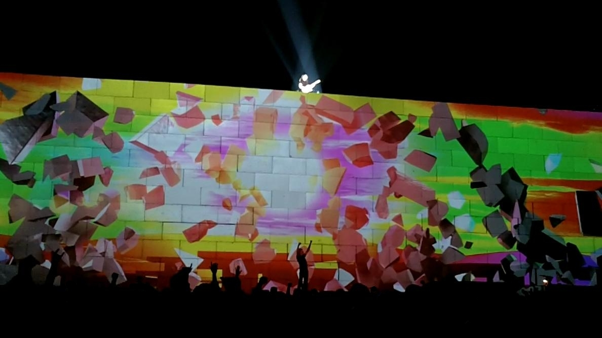 I took this photo from the 25th row, center stage, using a Kodak Playsport camera.